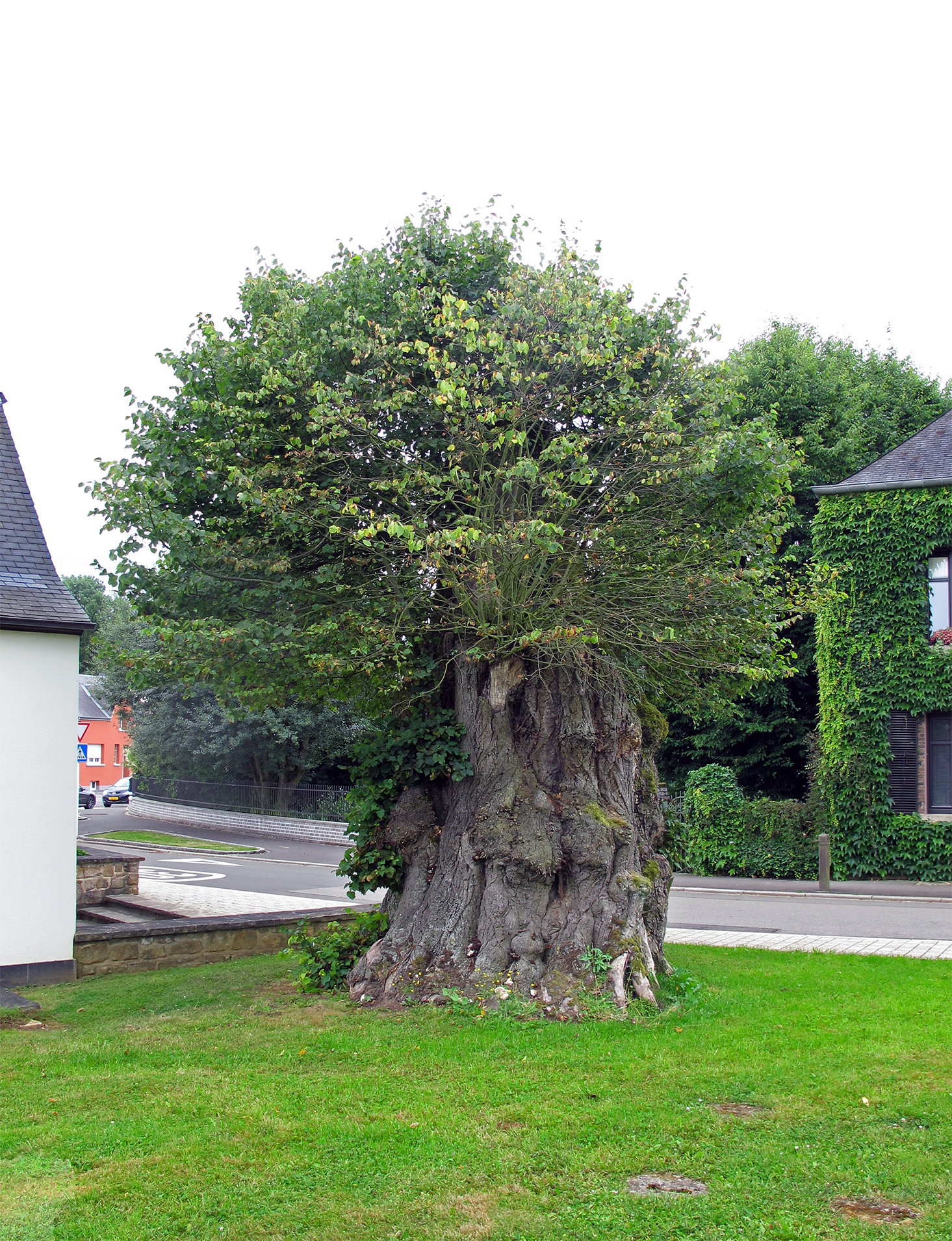 Lime tree in Clemency, Luxembourg